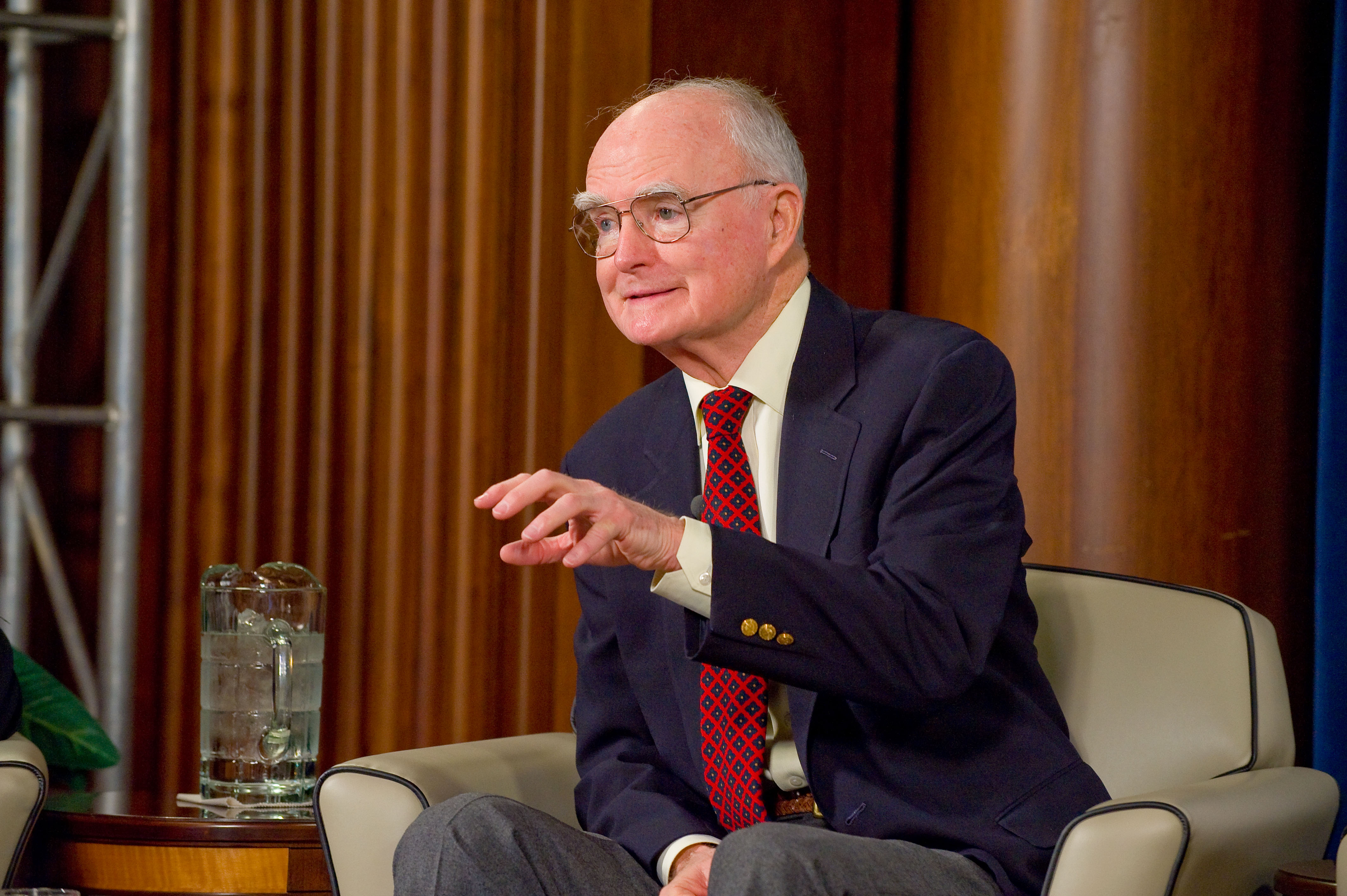 Office of the Administrator (Lisa P. Jackson) - 40th Anniversary Speakers Series, William Ruckelshaus [412-APD-583-2010-04-15_SpeakersSeries_063.jpg], 4/15/2010